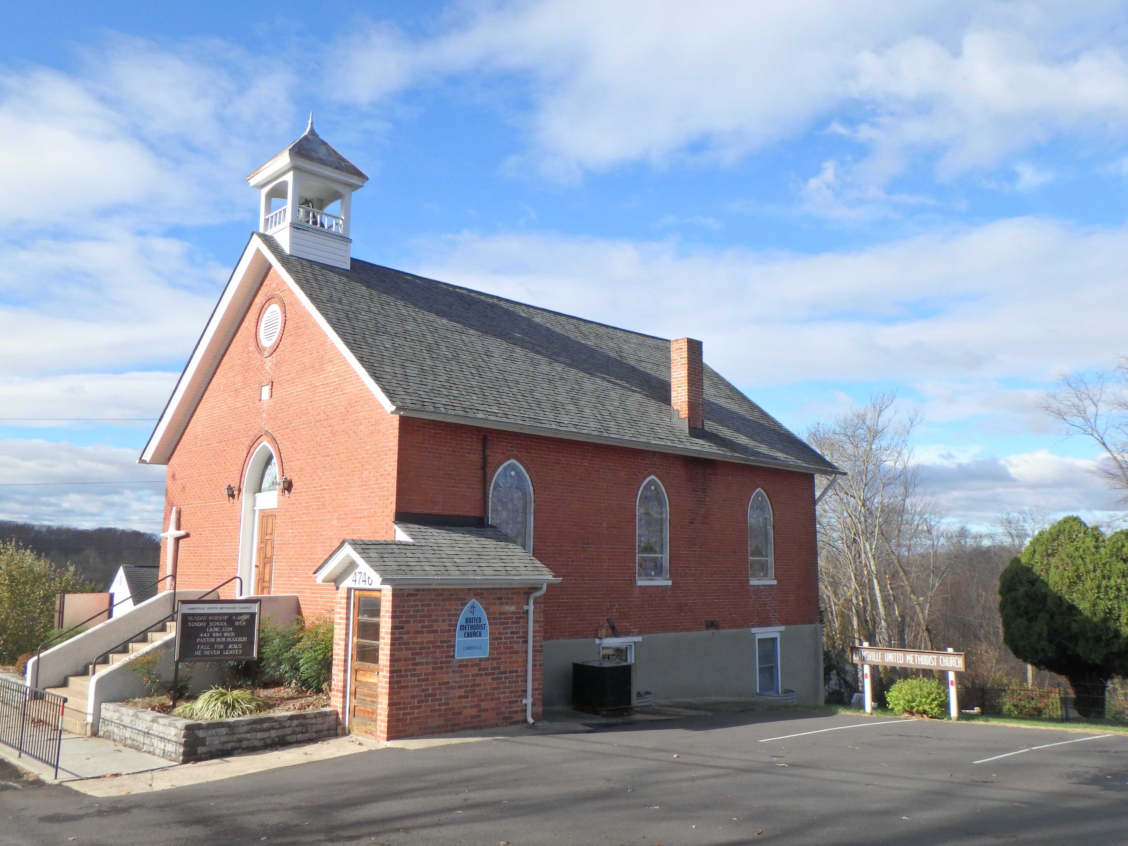 This image depicts the Ijamsville, MD United Methodist Church (in Nov. 2015). The building was originally constructed in 1854, but rebuilt in 1890 using the same bricks and foundation.